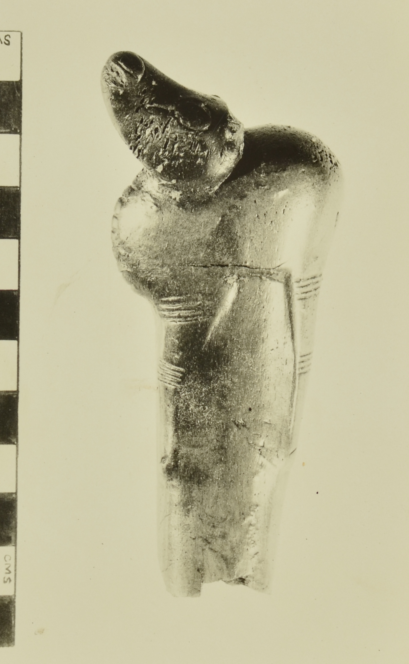 Historic photos from the Wadi el-Mughara/Nahal Mearot excavation (Israel), 1928-1933